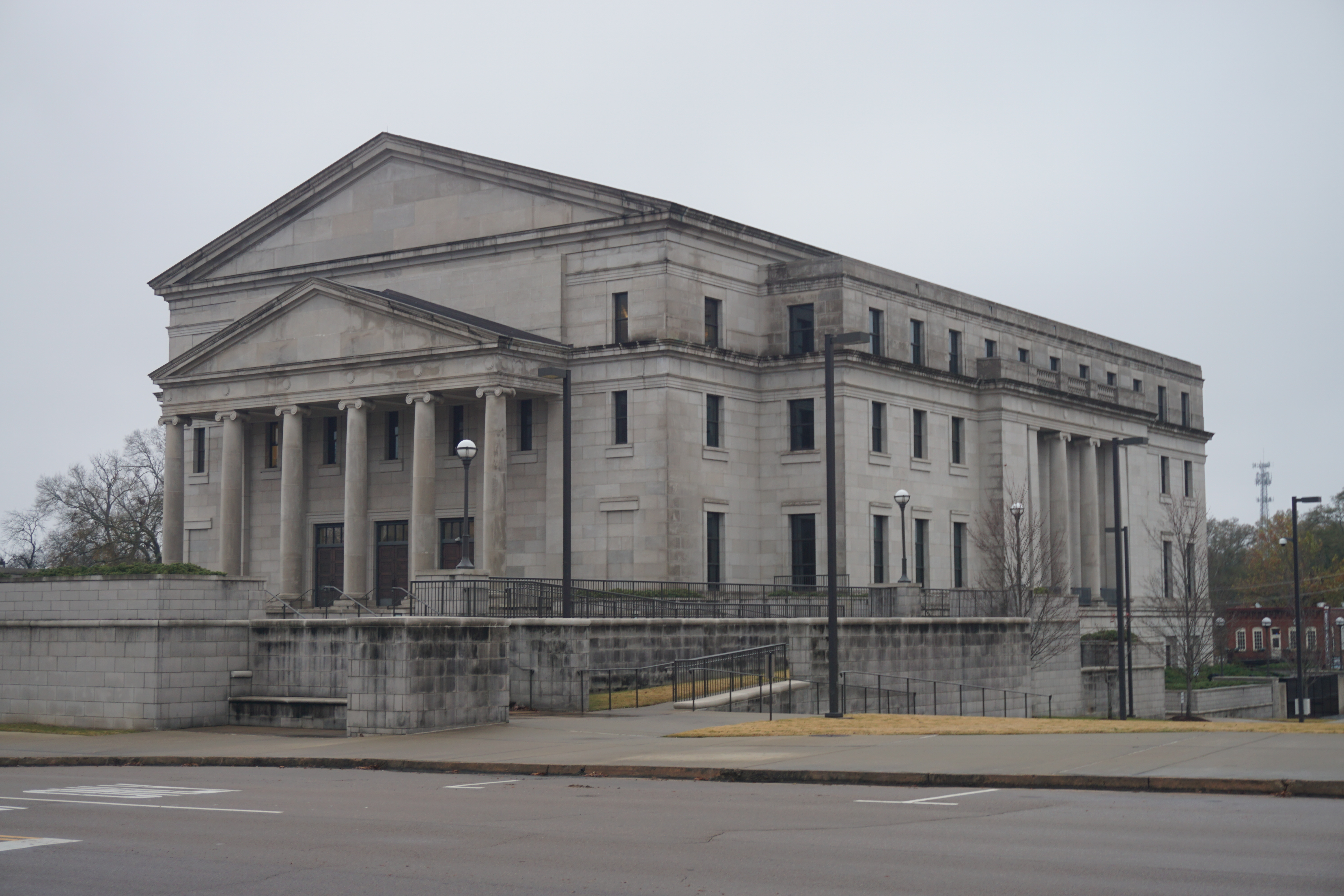 The Supreme Court of Mississippi in Jackson, Mississippi (United States).